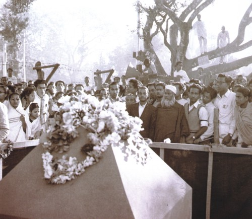 21 February 1956: Abul Barkat's sister, sister-in-law and mother standing in front of the foundation stone of the central Shaheed Minar, Dhaka, East Pakistan.